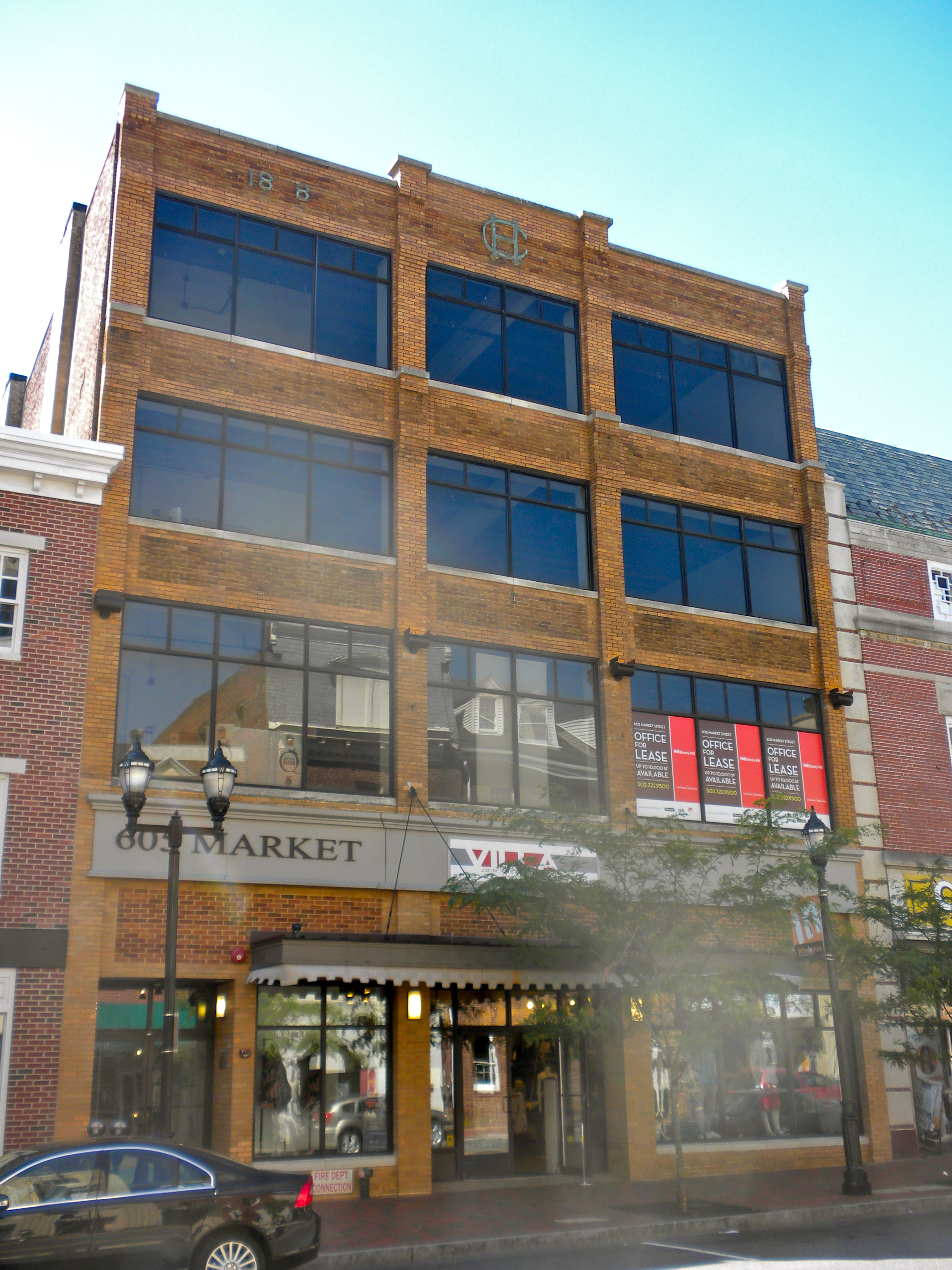 Crosby and Hill Building on the NRHP since January 30, 1985. At 605 N. Market St., Wilmington, Delaware